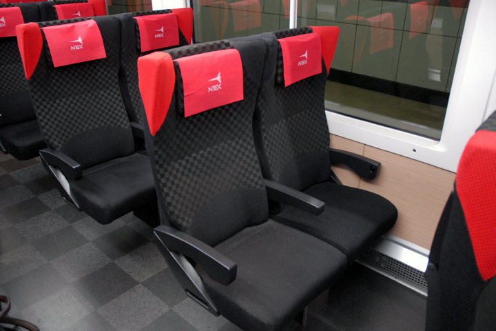 Standard class seating in a JR East E259 series "Narita Express" EMU